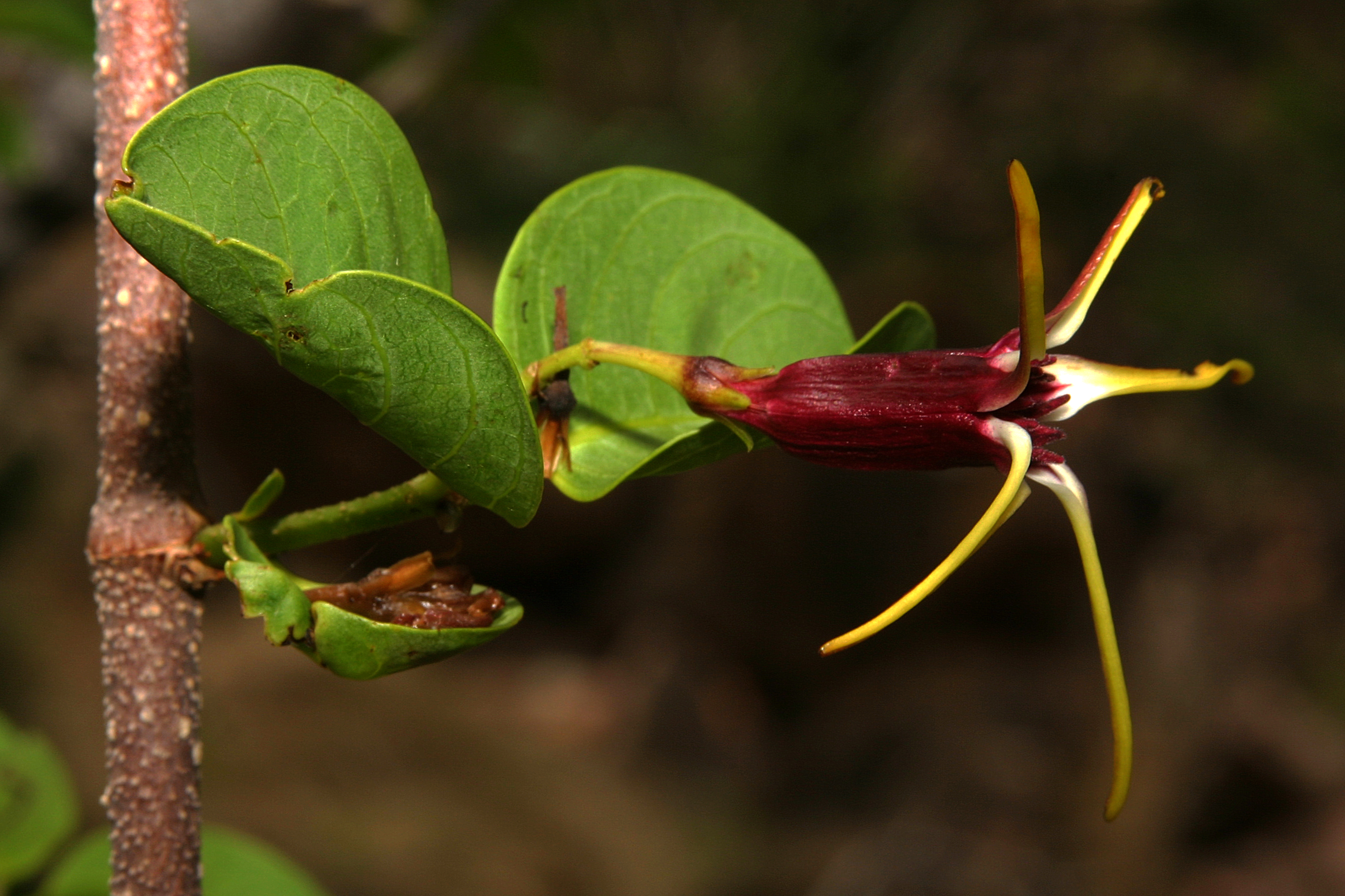 Strophanthus amboensis, flower. Bushveld, Omavanda, Baynes Mountains, Kaokoveld, Namibia